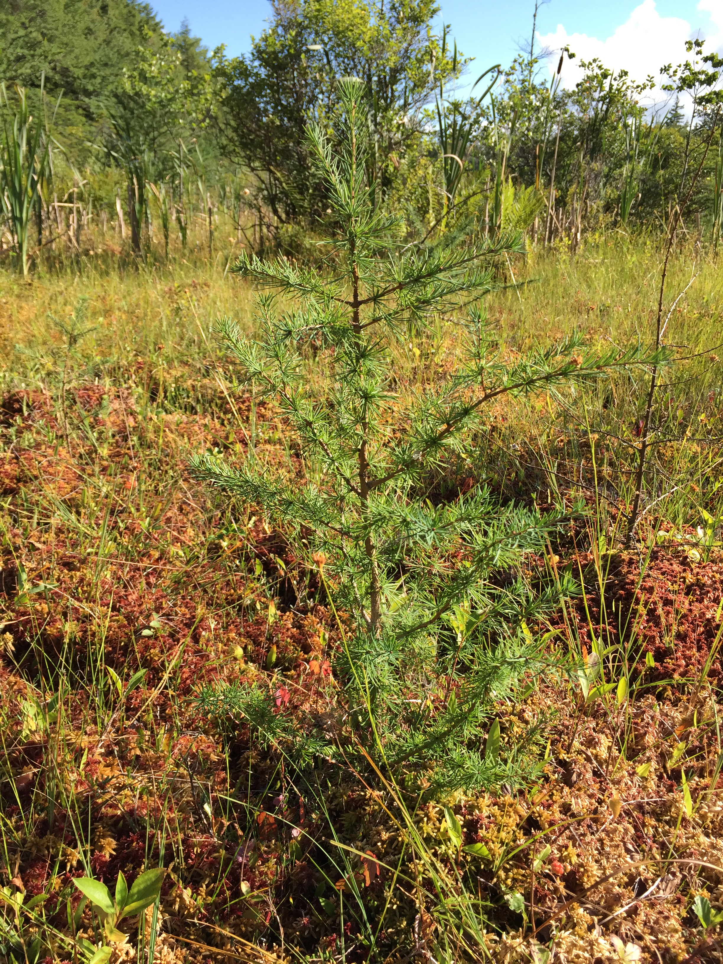 Tamarack seedling in a sphagnum bog adjacent to Taborton Road (Rensselaer County Route 42) in Sand Lake, New York